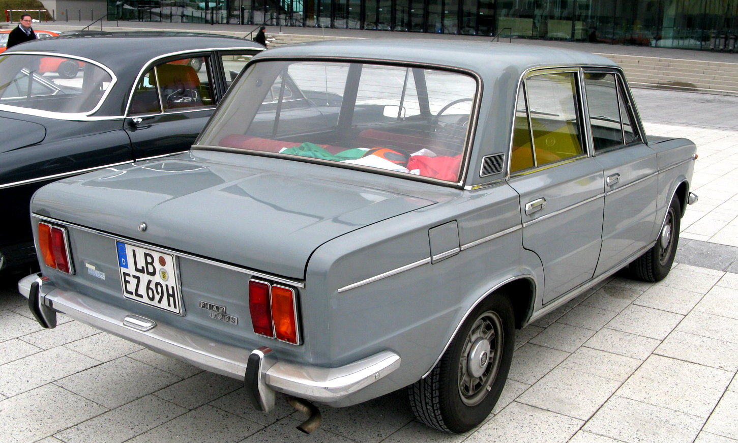 1969 Fiat 125 S